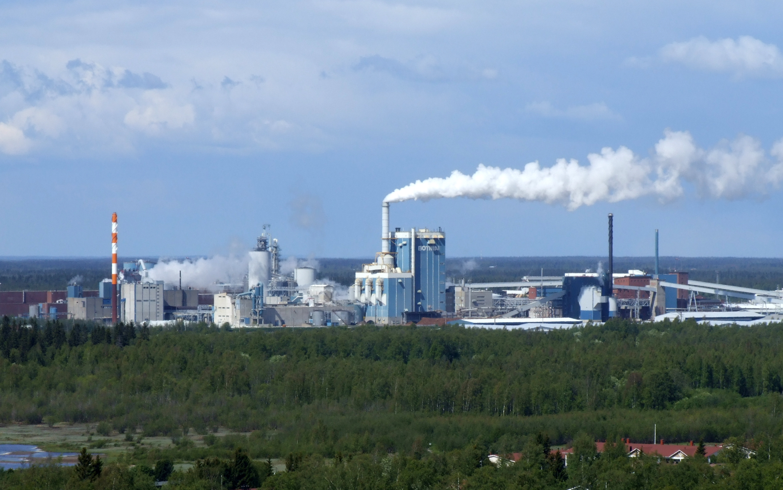 The pulp mill of Metsä-Botnia Oy in Kemi, Finland.